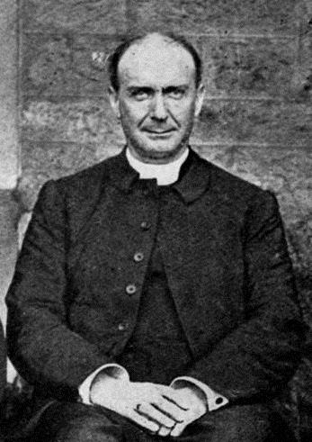 St Clair Donaldson, Archbishop of Brisbane, at the consecration of Dr. G. D. Halford as Bishop of Rockhampton, 1909.